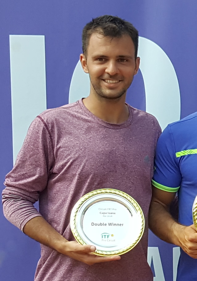 Romanian professional tennis players Vasile ANTONESCU (ROU) / Patrick GRIGORIU (ROU) [1] def. 6-1 6-4 Victor Vlad CORNEA (ROU) / Victor CRIVOI (ROU) at the Ioana Cup Doubles Finals 2018 Romania Futures1 – held at the Tenis Club Herastrau in Bucharest, 25 May 2018.